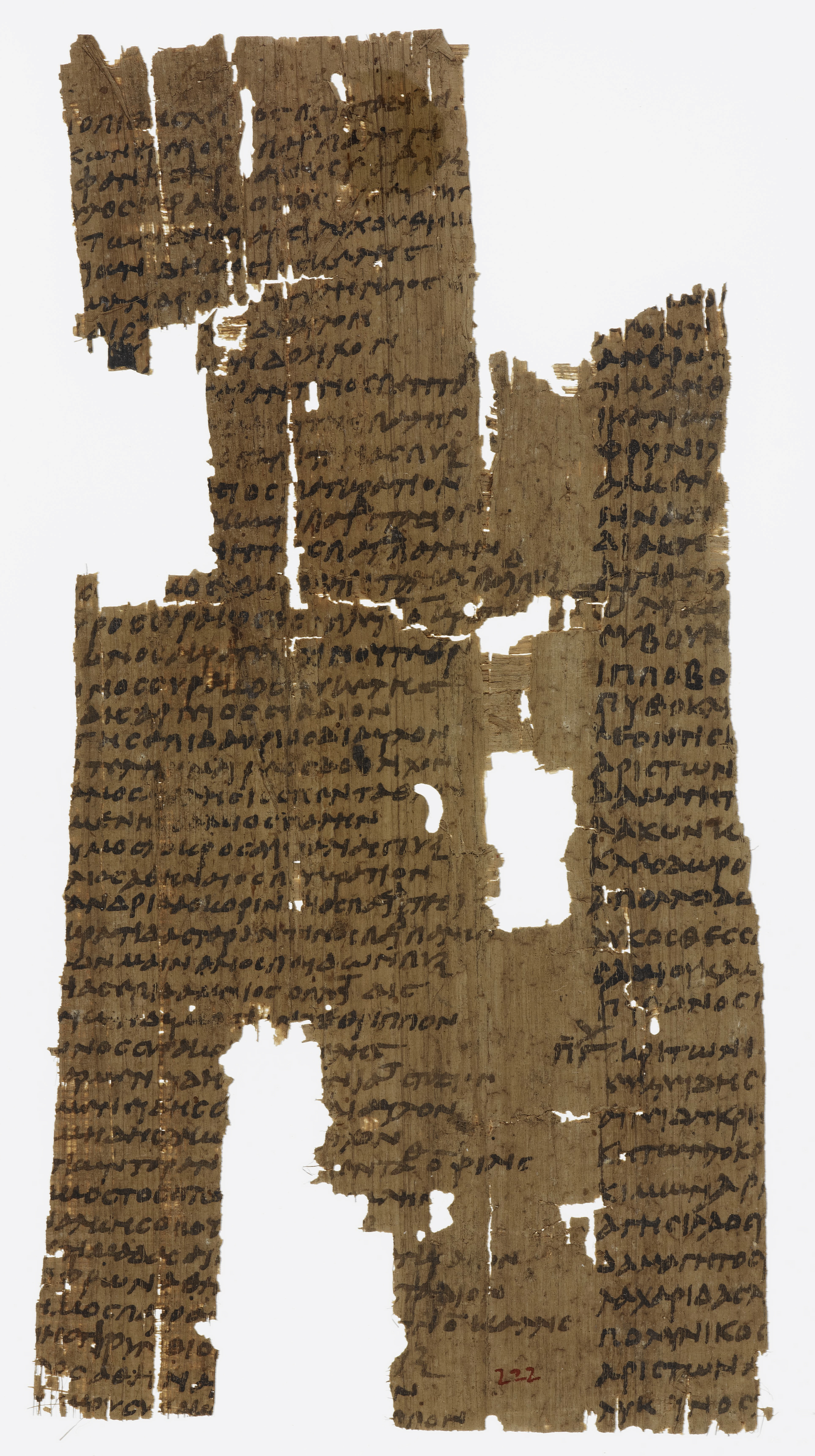 Ancient list on Papyrus 1185 of Olympic victors of the 75th to the 78th, and from the 81st to the 83rd Olympiads (480–468 BC, 456–448 BC). Thirteen events listed: stadion run, wrestling, boxing [these three also for boys], two stadia run, dolichos (2000 metres), pentathlon, pancration, hoplite run in armour, four horse chariot race, horse-riding.